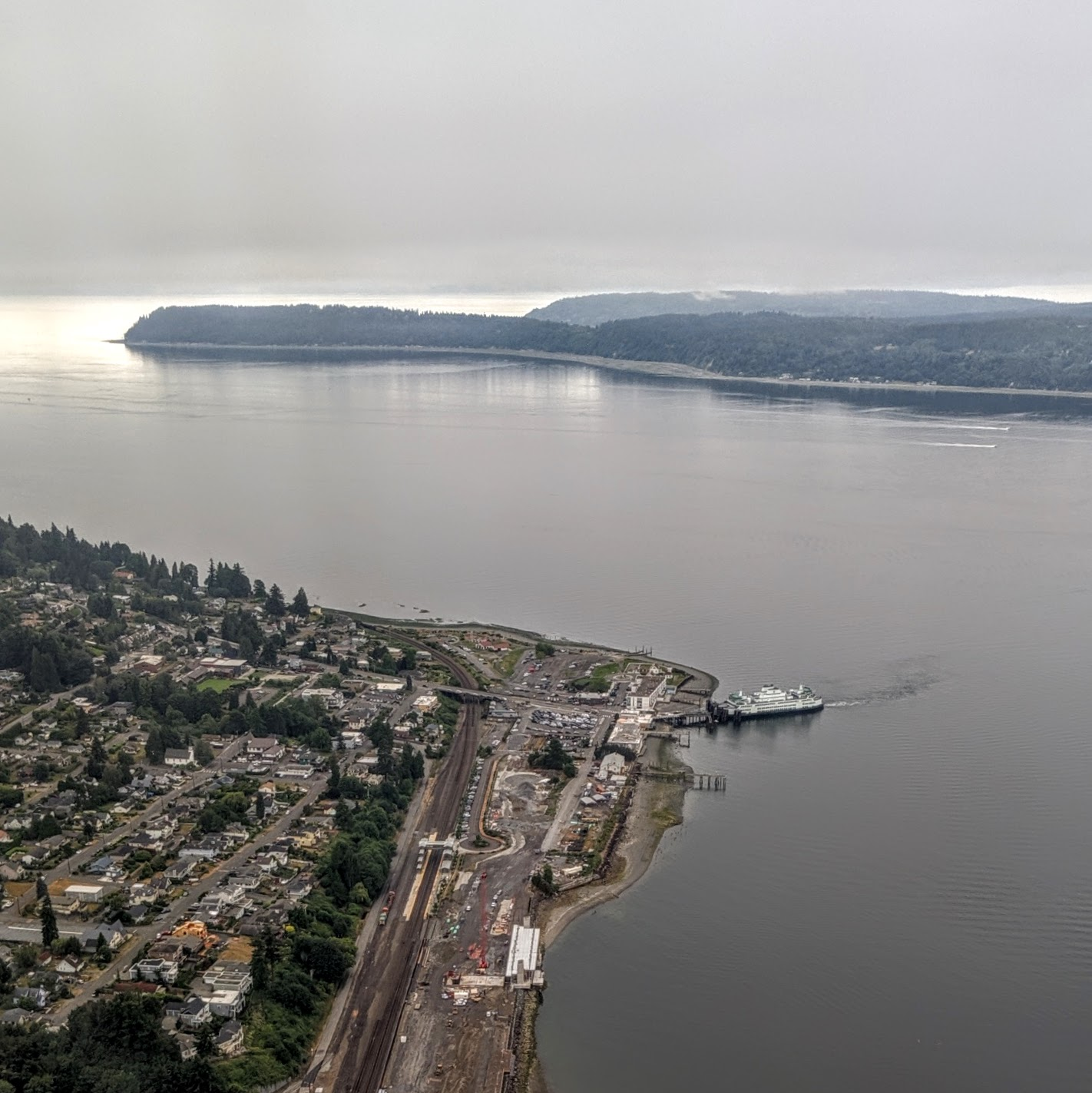 Aerial view from the east-northeast of the Mukilteo–Clinton ferry at the Mukilteo, Washington, terminal, with Whidbey Island in the background; the other terminal, at Clinton, is outside the field of view, to the right